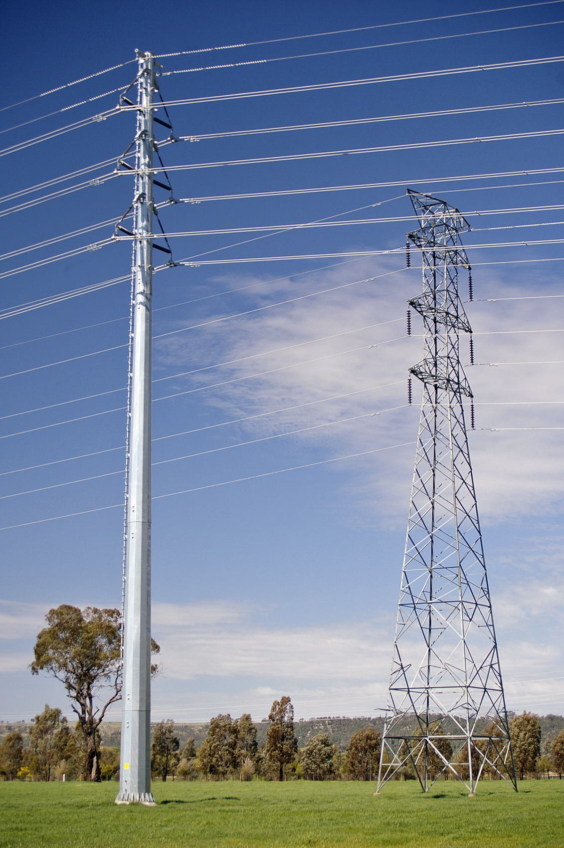 New and old electricity pylons at Gregadoo,New South Wales